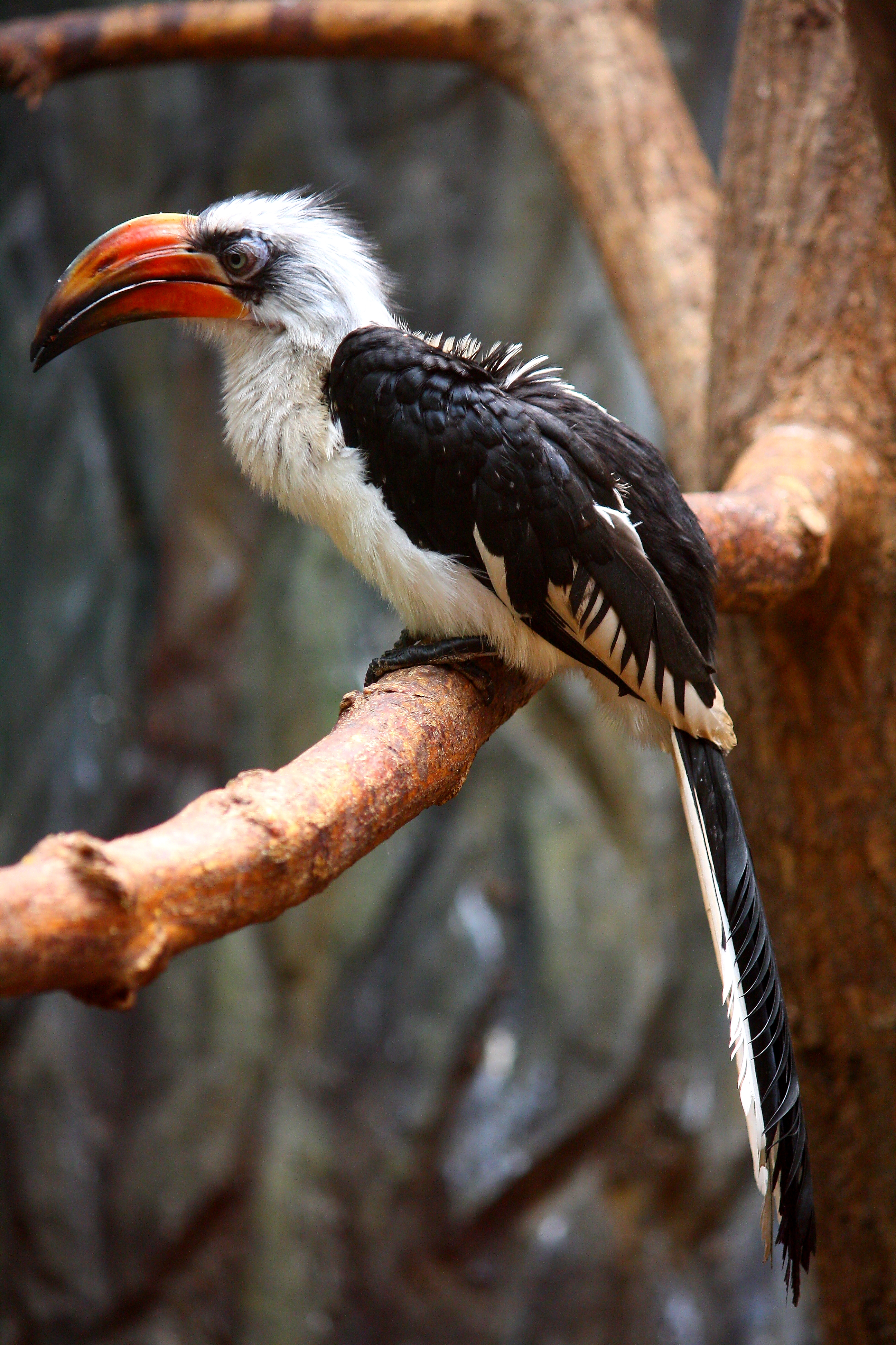 Von der Decken's Hornbill (Tockus deckeni) in zoological garden in Plock.